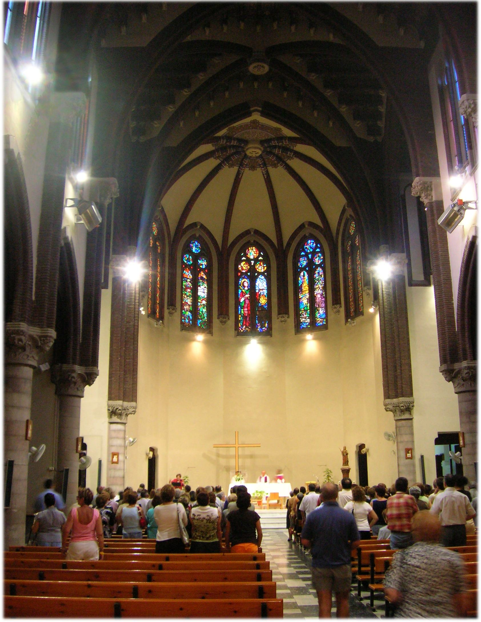 Main church in Santa Coloma de Gramenet